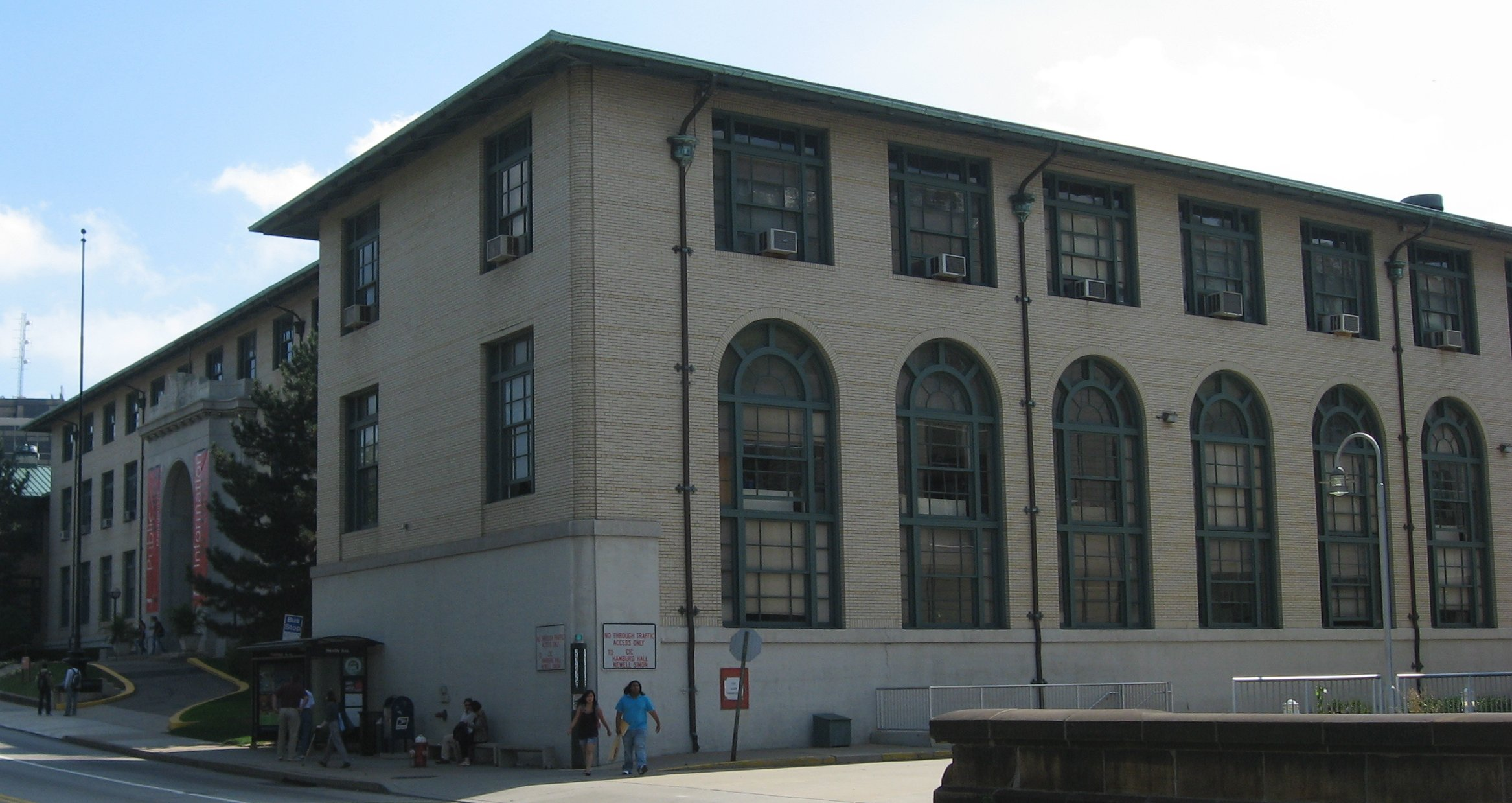 Front and western side of the former Main Building of the United States Bureau of Mines, located at 4800 Forbes Avenue in the Squirrel Hill North neighborhood of Pittsburgh, Pennsylvania, United States. Now a part of the campus of Carnegie Mellon University, it was built in 1915 and is listed on the National Register of Historic Places.